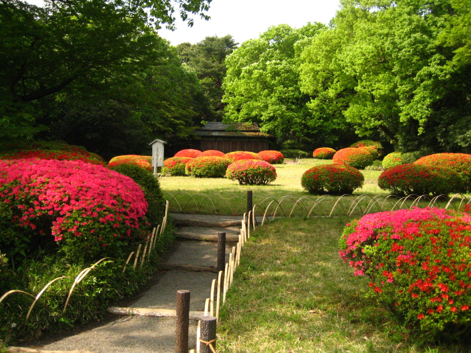 A picture taken from inside the Meiji Shrine Inner Garden in Shibuya, Tokyo. Picture was taken with a Canon Power Shot SD450 Digital Elph camera and modified using a Paint Shop program on a laptop computer.